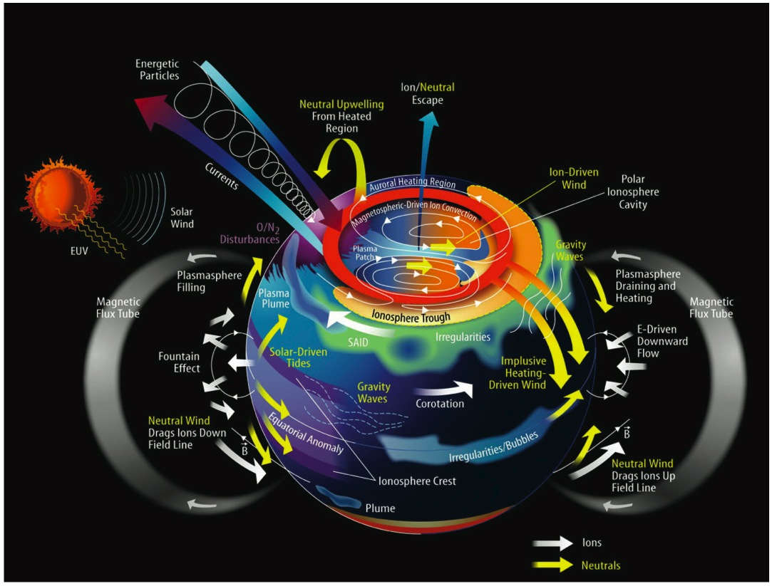 The prominent features in the ionosphere-thermosphere system and their coupling to the different energy inputs show the complex temporal and spatial phenomena that are generated.